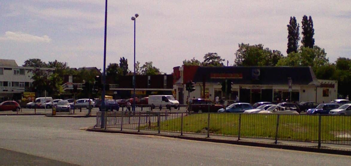 Image of the Scott Arms in Great Barr, taken by myself from my car the other day :-)